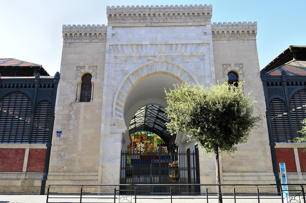 Atarazanas Market, Malaga, Spain.